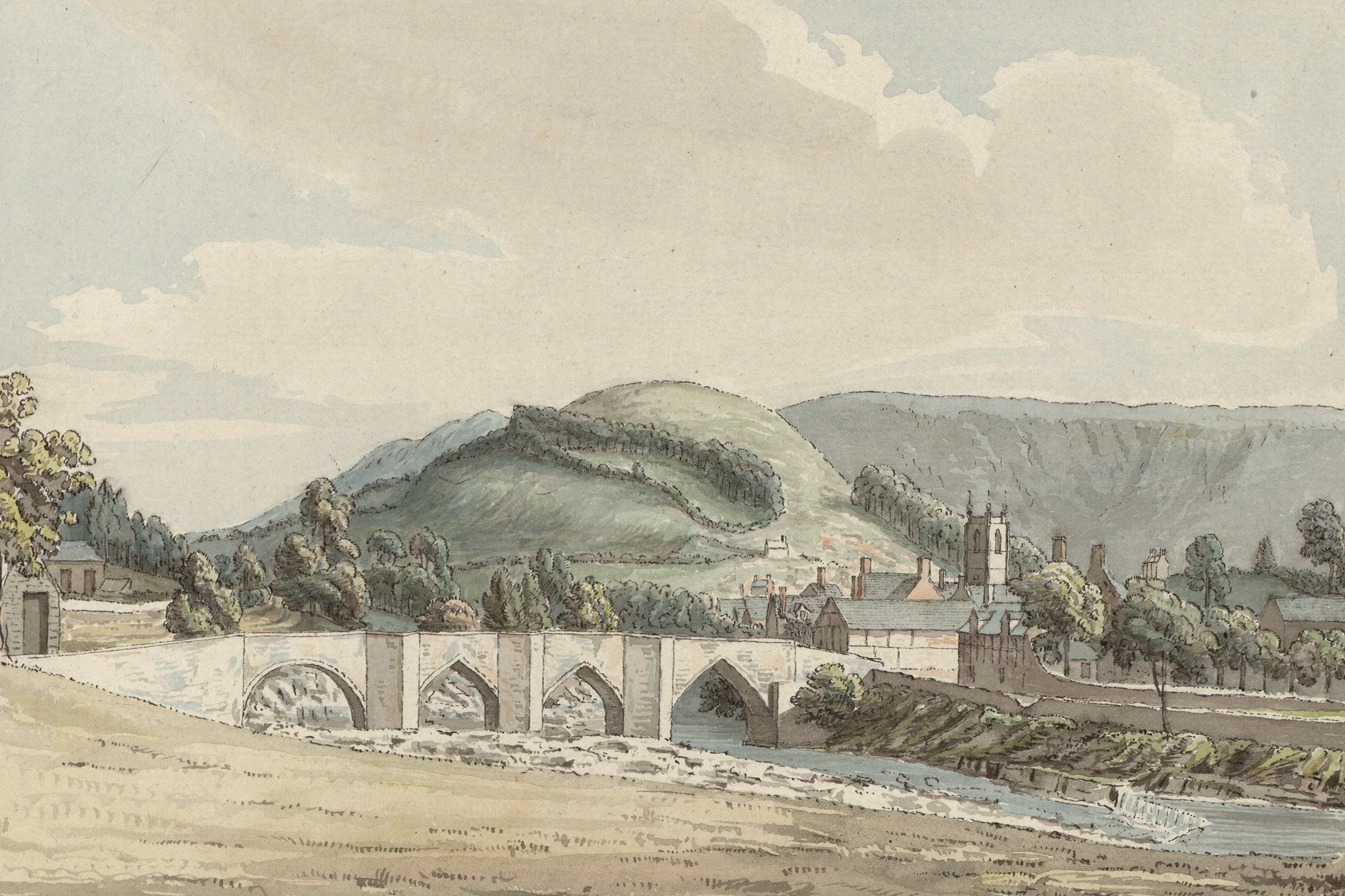 An image from a set of 8 extra-illustrated volumes of A tour in Wales by Thomas Pennant (1726-1798) that chronicle the three journeys he made through Wales between 1773 and 1776. These volumes are unique because they were compiled for Pennant's own library at Downing. This edition was produced in 1781. The volumes include a number of original drawings by Moses Griffiths, Ingleby and other well known artists of the period. Thomas Pennant (1726-1798)